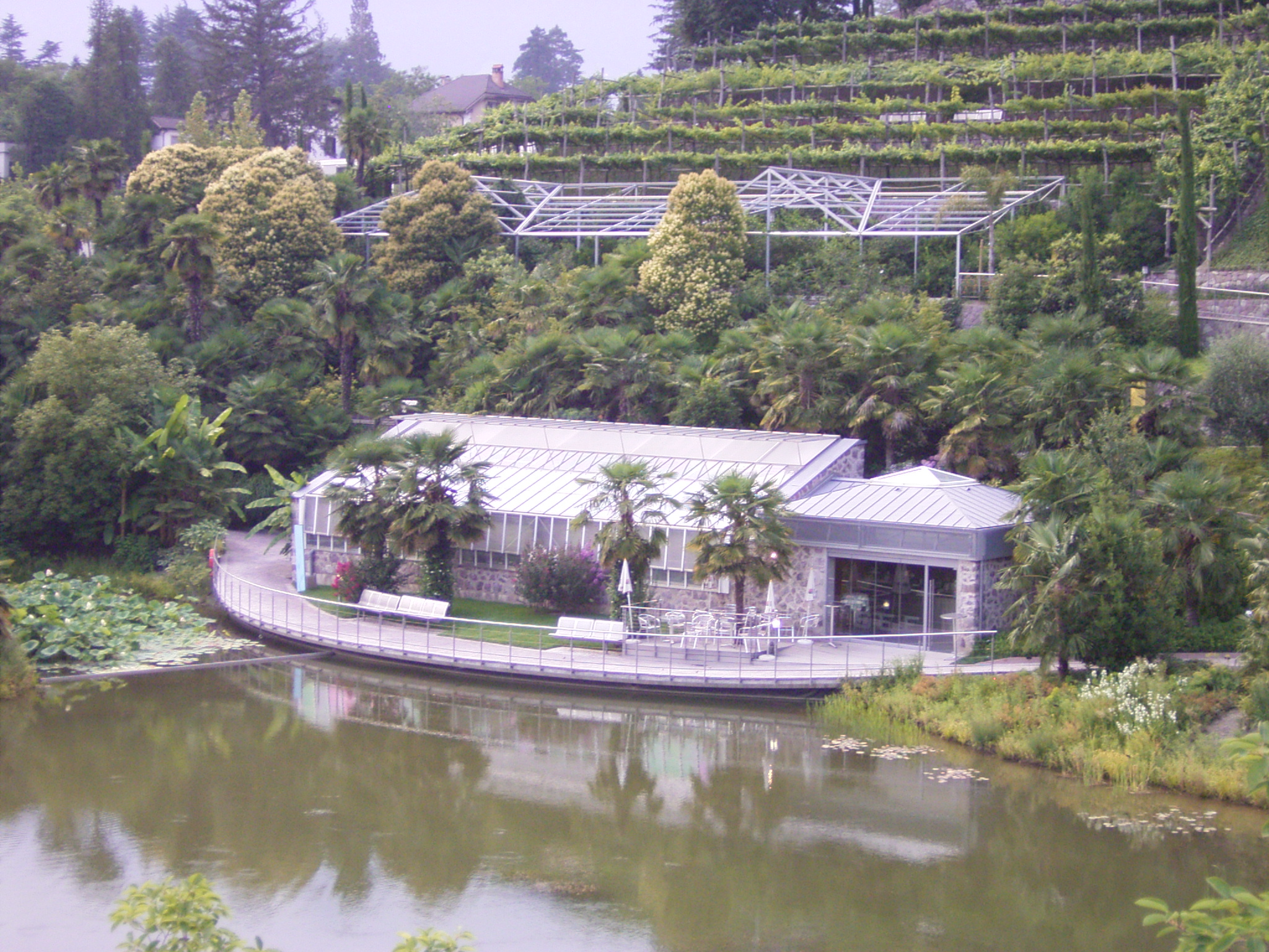 Photo of orchid-house in botanical garden Meran in South Tyrol.